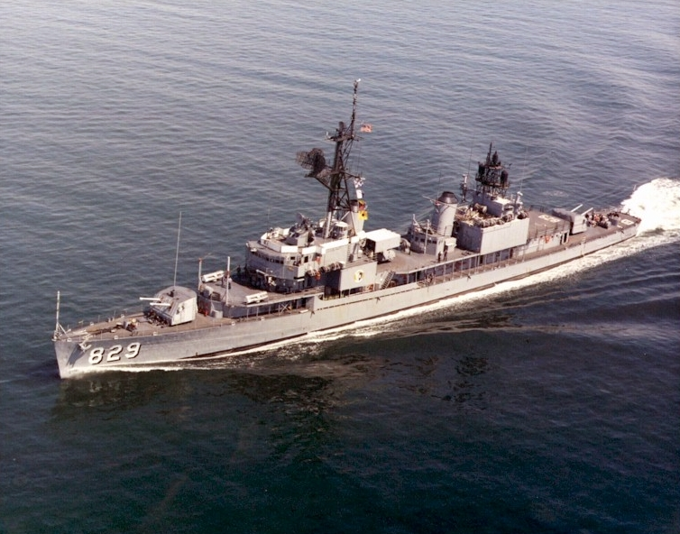 The U.S. Navy Gearing-class destroyer USS Myles C. Fox (DD-829) underway in the early 1970s.